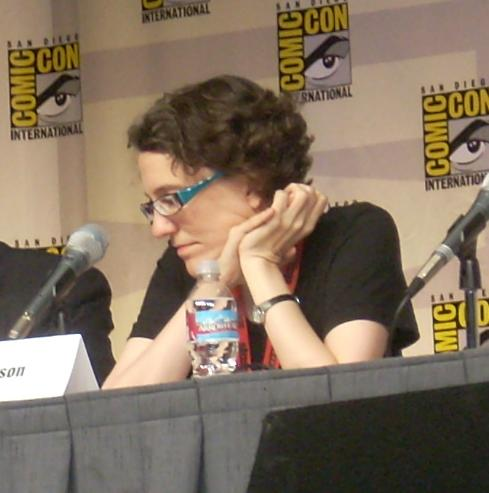 Producer Jane Espenson – Comic-Con 2009 - Battlestar Galactica: The Plan & Caprica panel - San Diego, Calif. - July 24, 2009.